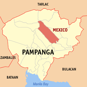 Map of Pampanga showing the location of Mexico